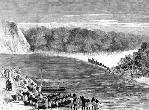 Death of Kalulu - Henry Morton Stanley's servant. Historic engraving re death of Kalulu, at the Kalulu Falls, during Sir Henry Morton Stanley's visit in 1874-1877.